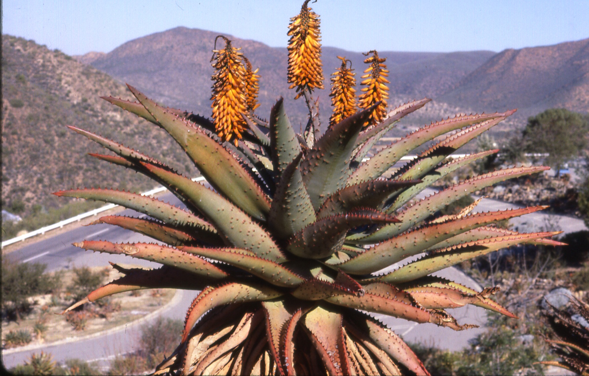 The plant is Aloe ferox. Photo taken July 3, 1979.